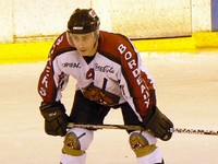 Stéphan Tartari, former professional French ice hockey player, now coach